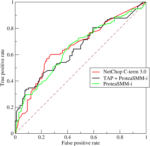 The picture was created by myself during my PhD for evaluating three different HIV epitope predictors. The methods were tested on only a small protein sample, so the results in this picture should not be used to evaluate the strength of the predictors. There're enough papers online (pubmed) where they're compared using large datasets. Kind regards, bOR.